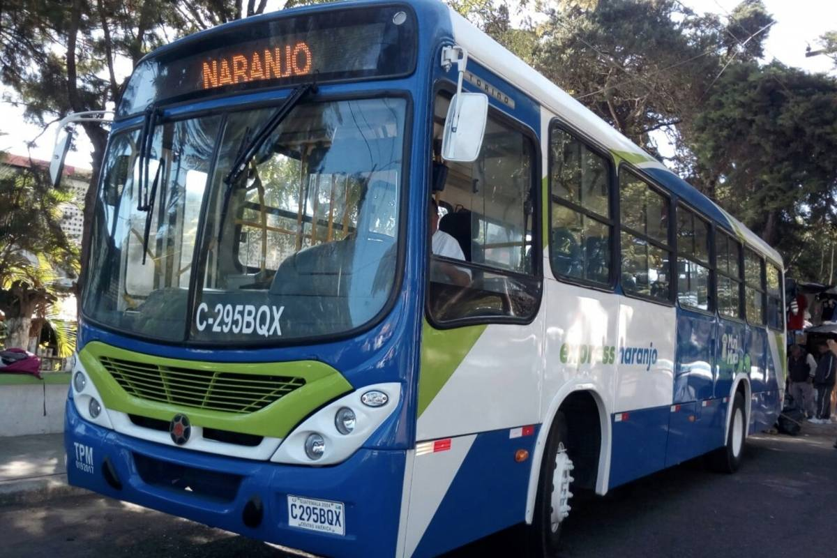 Ruta Express de Mixco, Guatemala